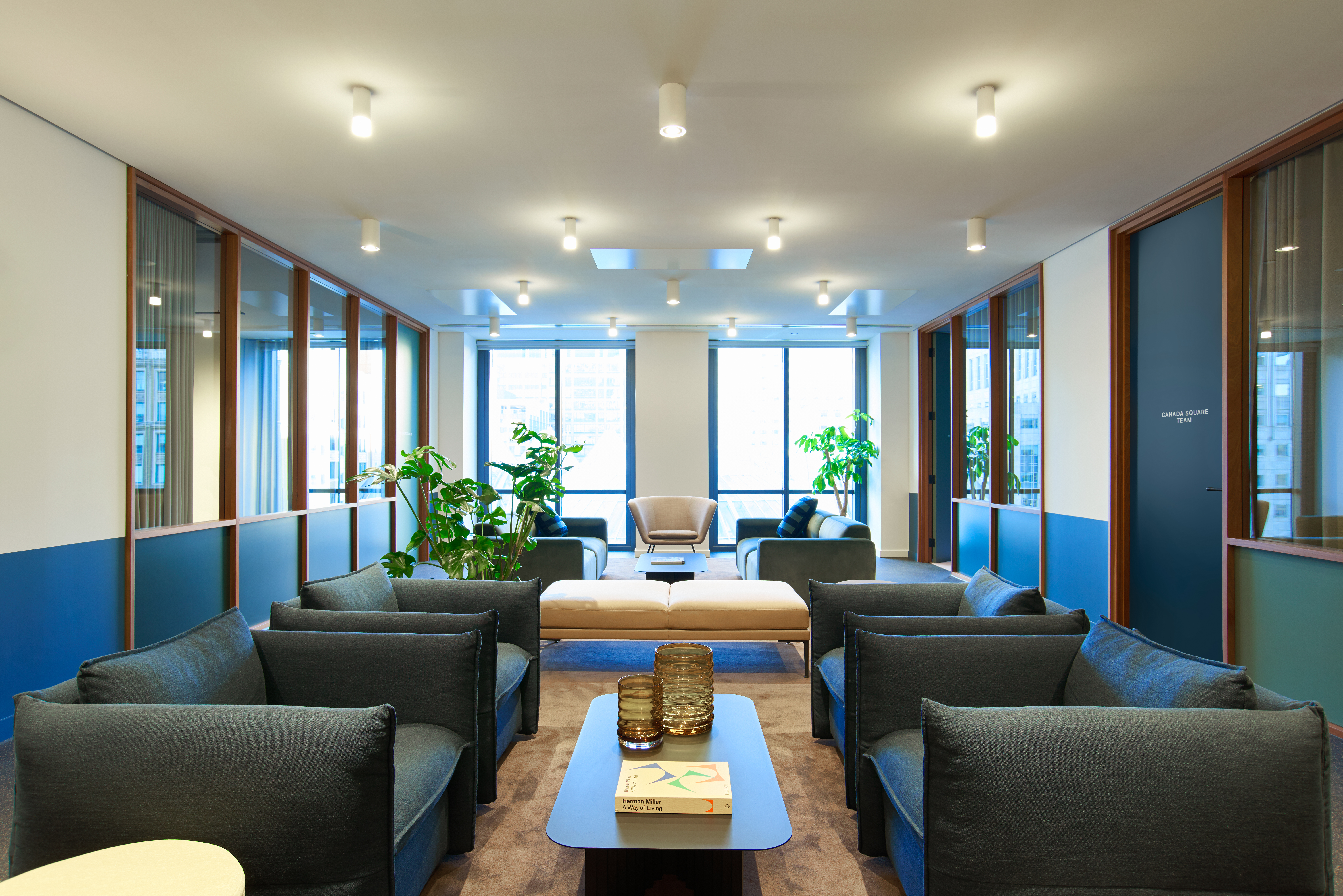 The lounge space at One Canada Square.